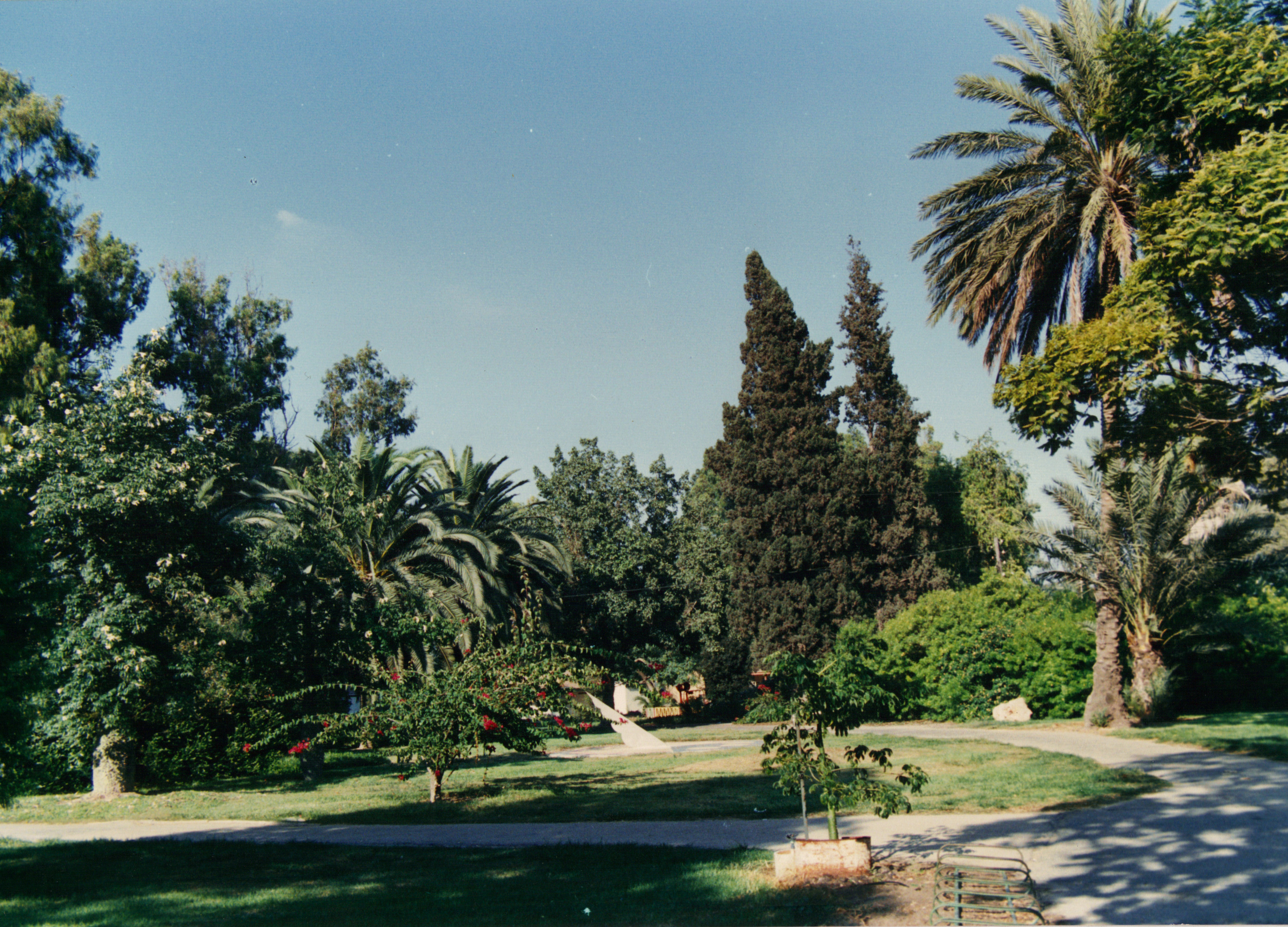 Sundial Yard, Geography of Israel